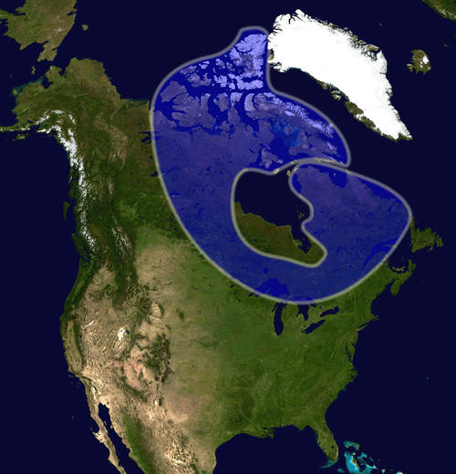 Map showing the Canadian Shield, created by User:Tomf688 adapted from Image:North America satellite orthographic.jpg. Used as source the map located at